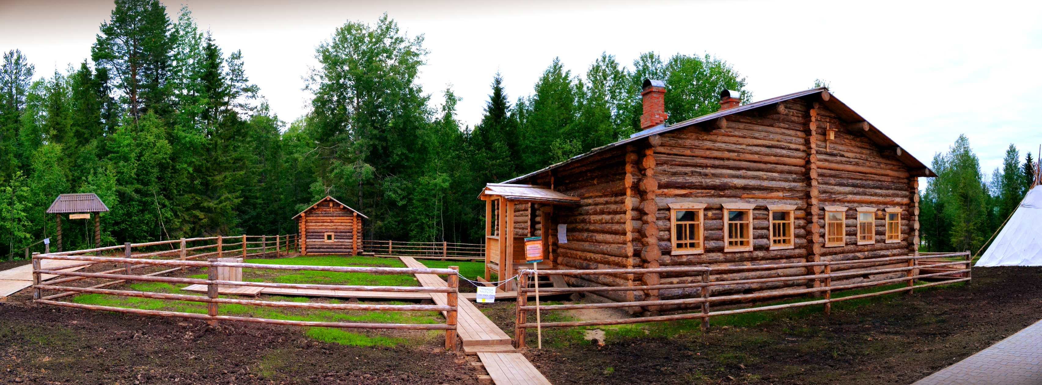 Komi podvor`e